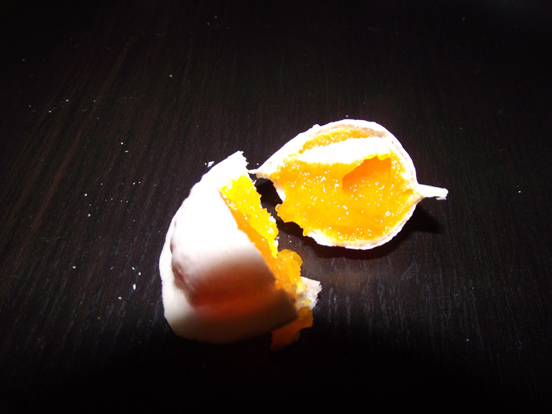 Ovos moles